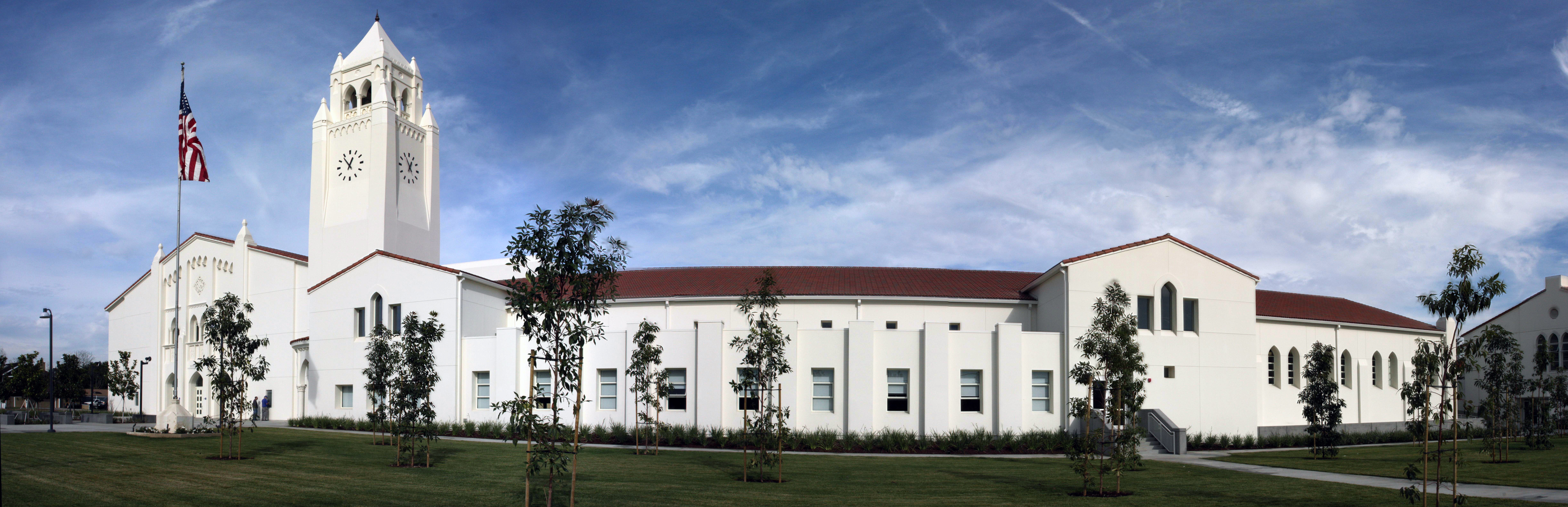 A panorama of the new Newport Harbor High School Robin-Loats Building Rendered from 13 Different photos, Handheld with an Canon EOS 40D